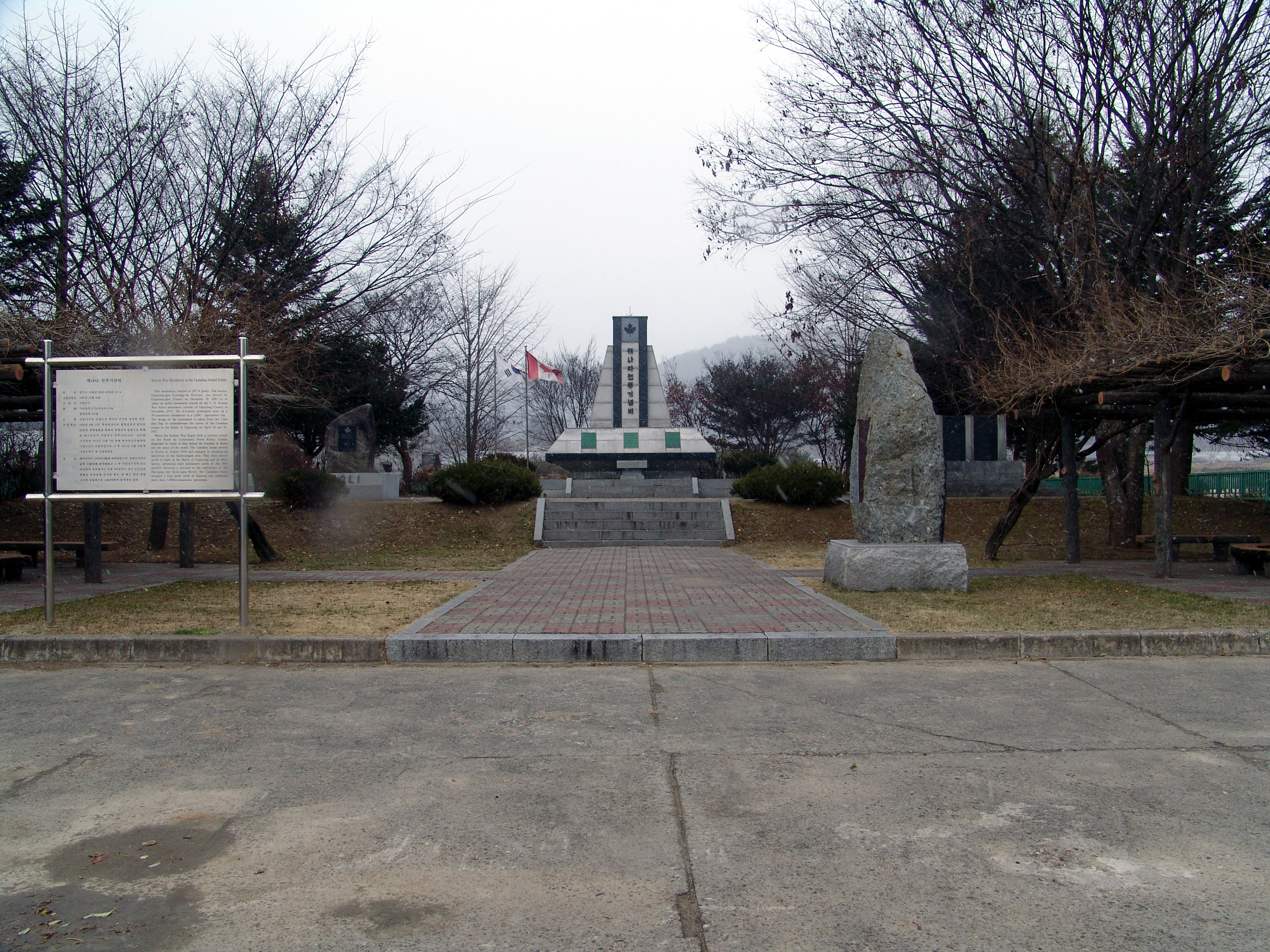 A global view of the Gapyeong Canada Monument. I took the picture.